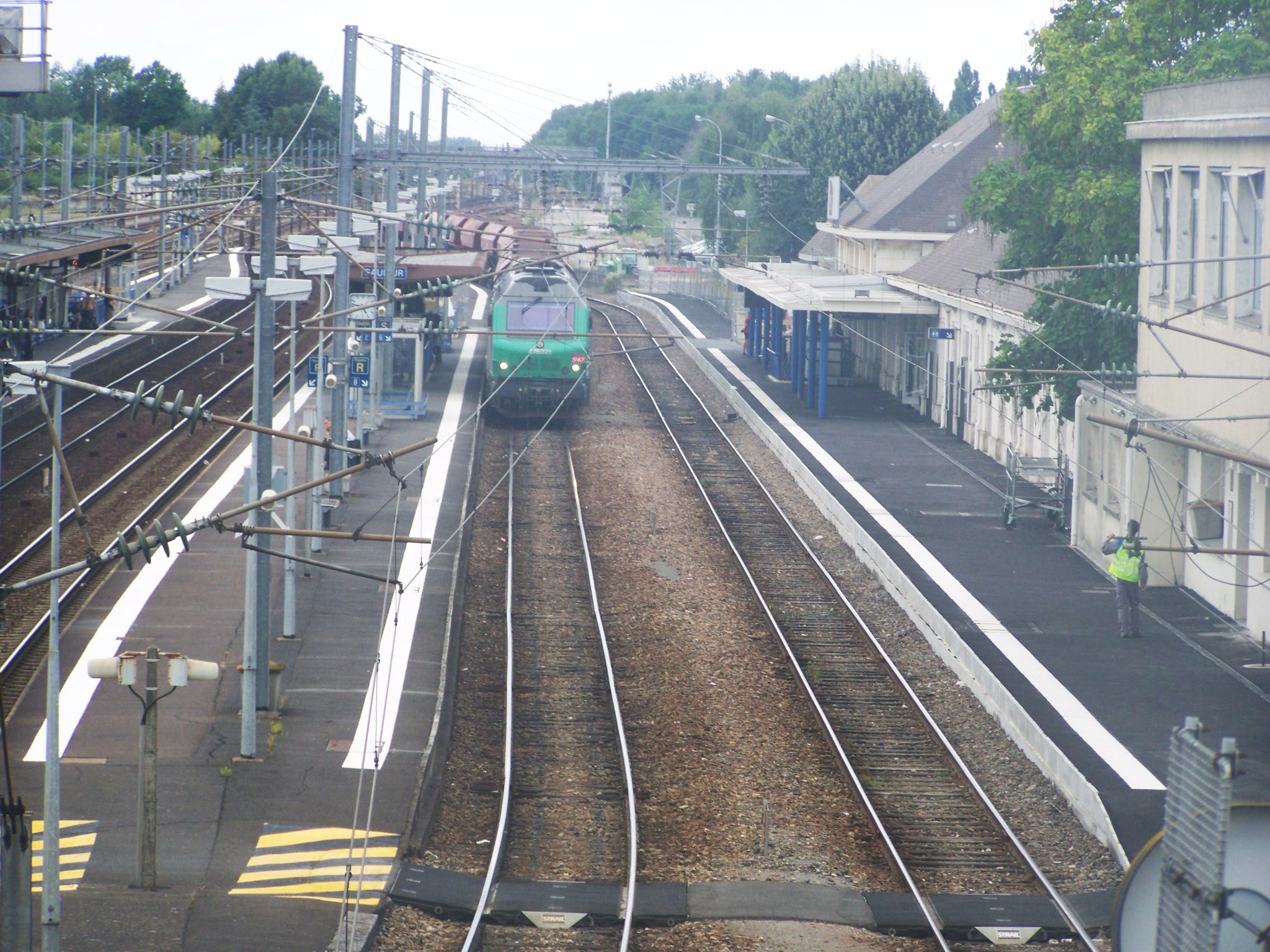 Platforms and tracks of city of Saumur railway station, in Maine-et-Loire, France.